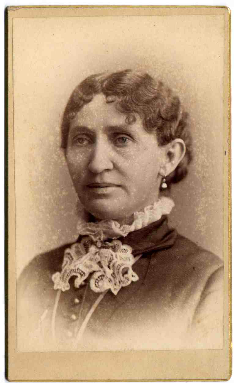 portrait of Mrs. Dr. Rebecca Keck (1838-1904) in Peoria c1880